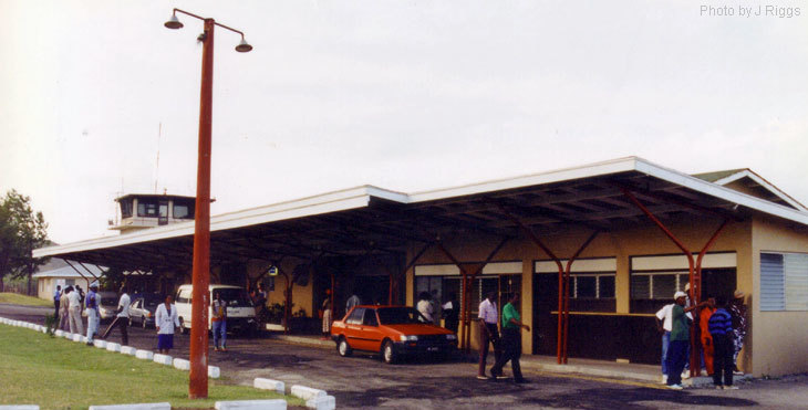 Terminal of the Bramble Airport in Montserrat in 1994, before the volcano destroyed it in 1997